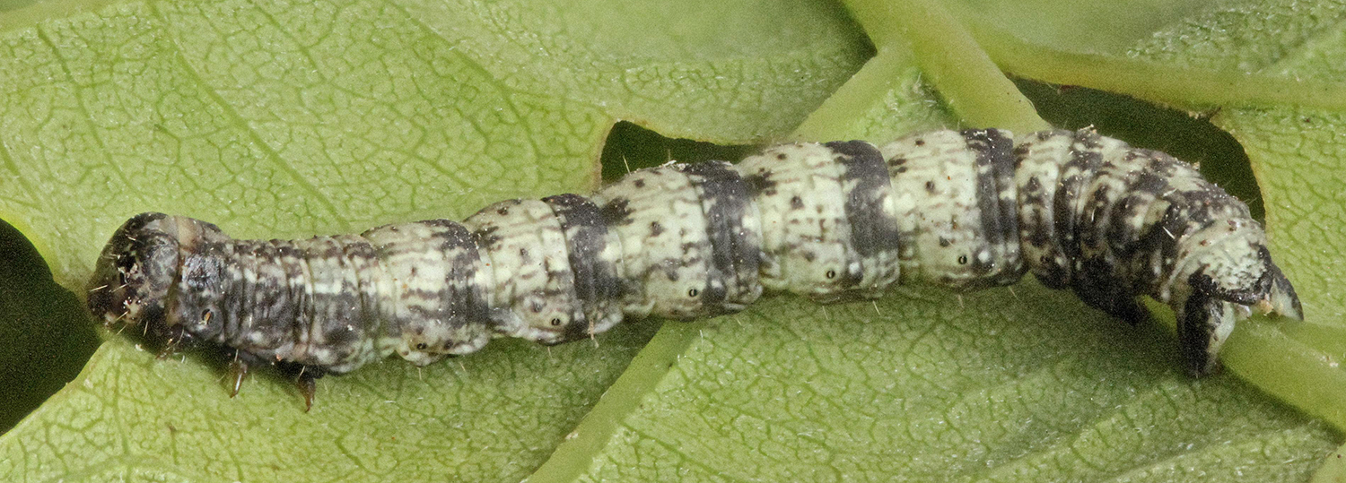 Agriopis leucophaearia, Spring Usher, Farchynys, North Wales, May 2014